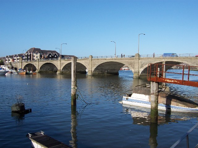 Cobden Bridge, Southampton Cobden Bridge links Bitterne Park on the right with St Denys on the left. Taken looking upstream along the Itchen.